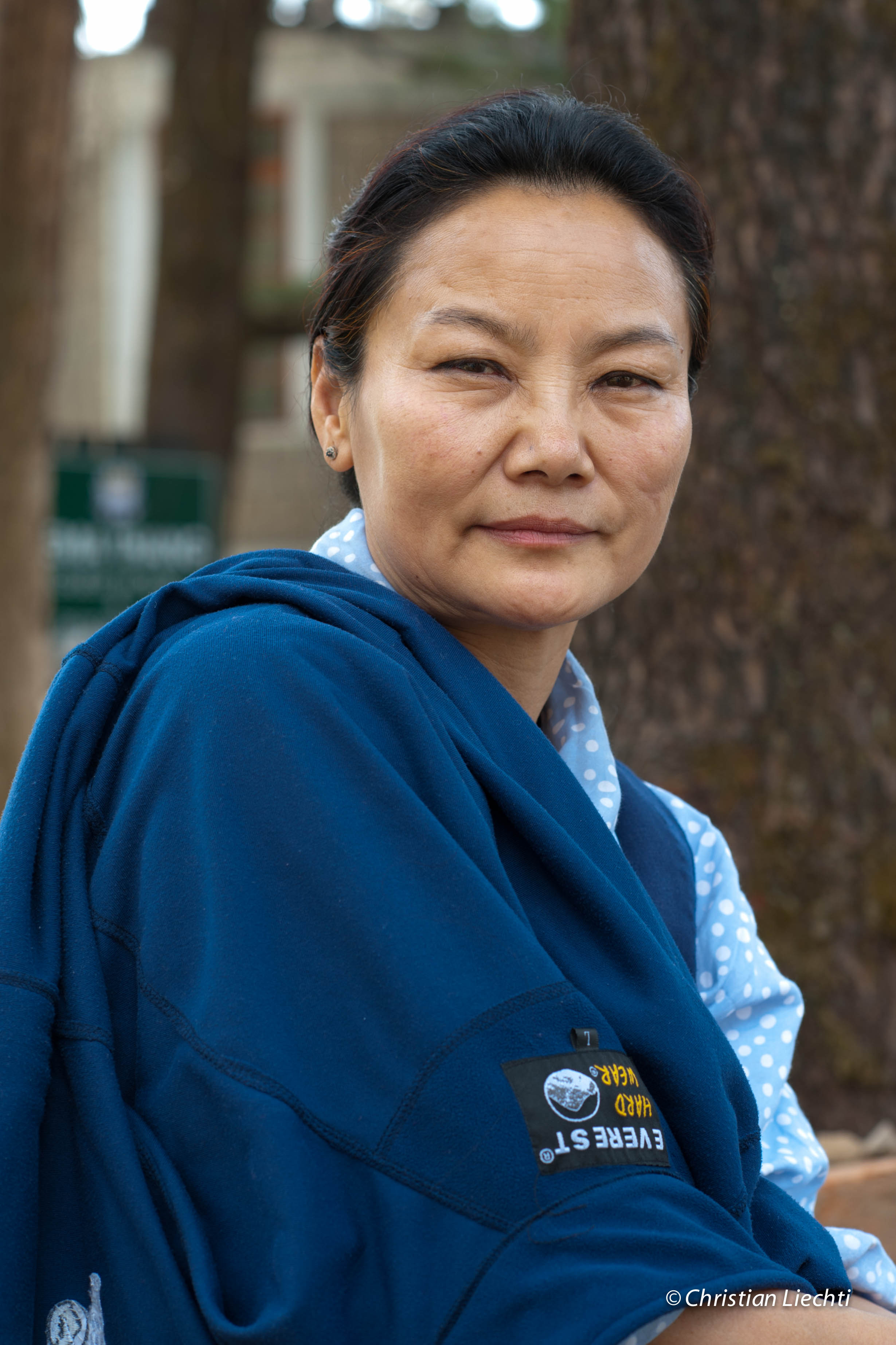 Very famous artist singer from Tibet McLeod Dharamsala. Deeply appreciate our meeting today around a tea time and nice share.